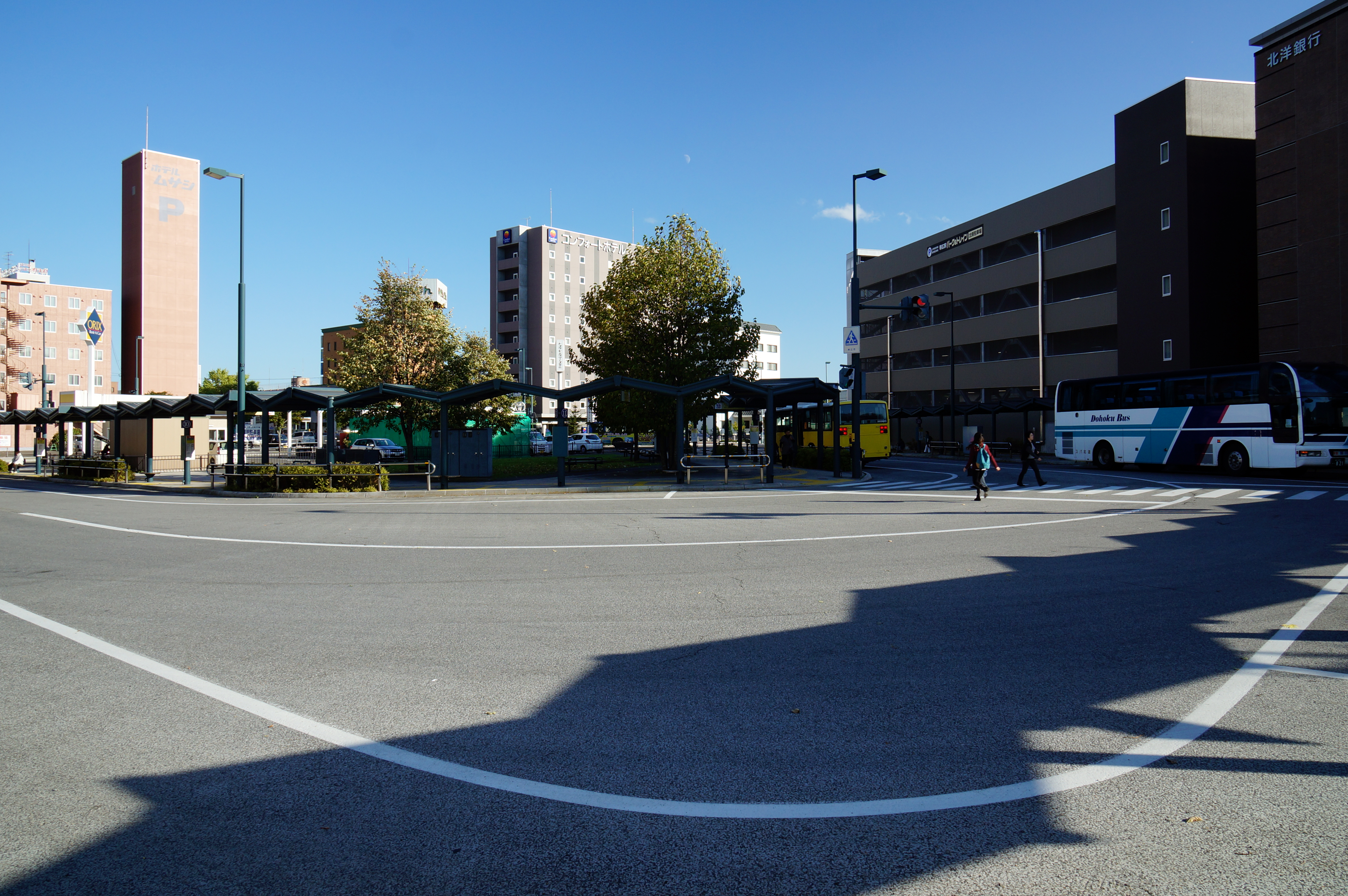 Obihiro Station Bus Terminal in Obihiro, Hokkaido prefecture, Japan.